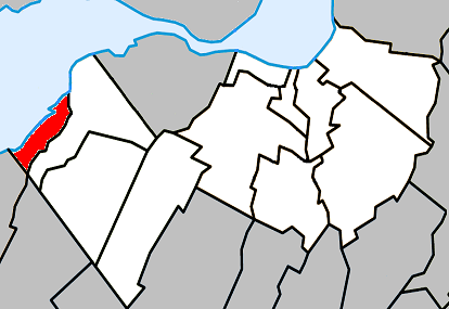 Location of Léry, Quebec within Roussillon Regional County Municipality.